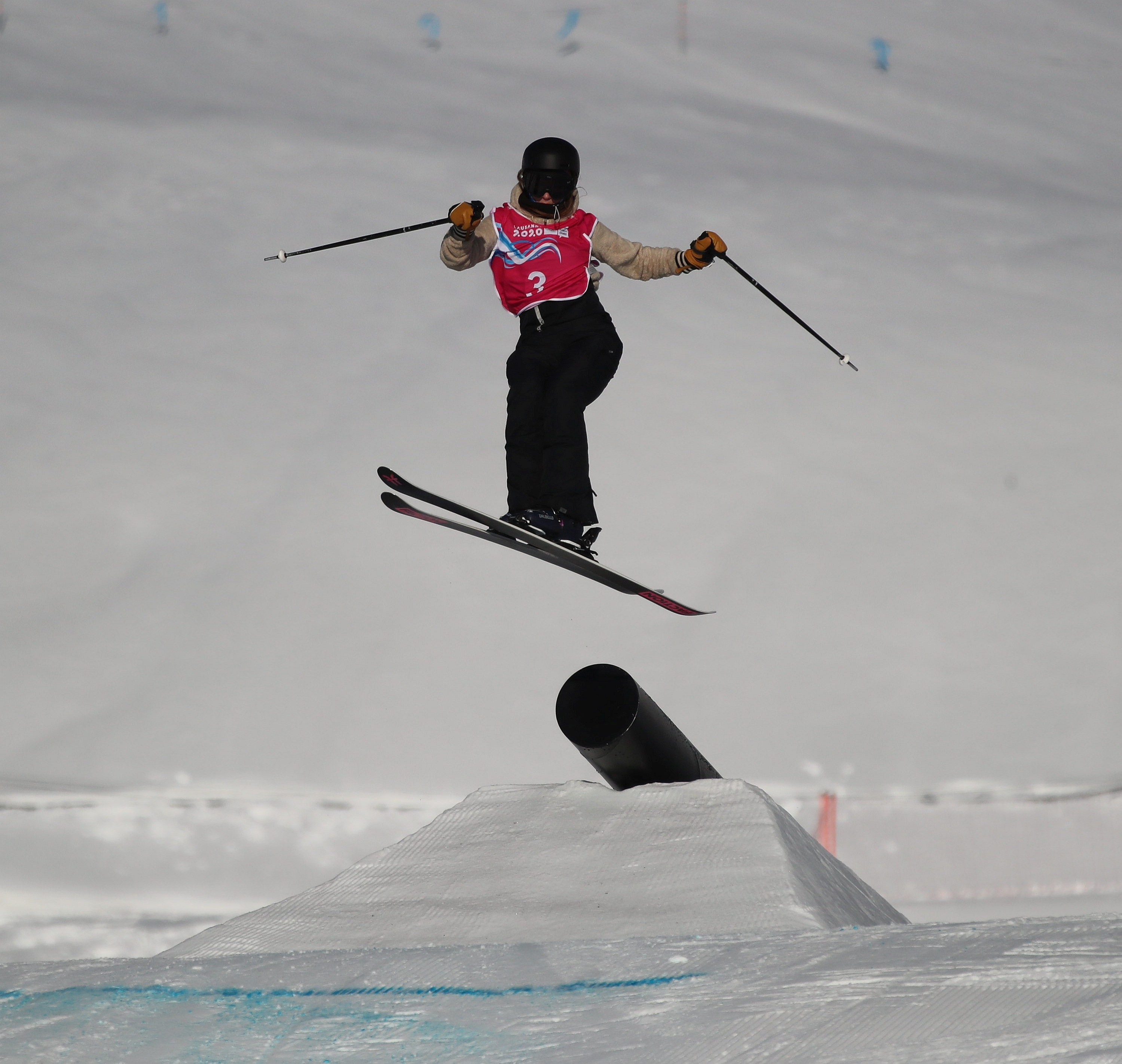 1st qualification run of Freestyle skiing – Women's Freestyle Slopestyle at the 2020 Winter Youth Olympics in Lausanne on 18 January 2020.